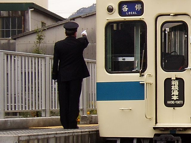 Odakyu Electric Railway Company, Conductor at Kazamatsuri Sta.